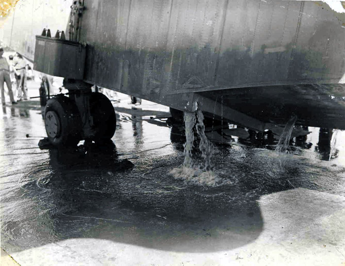 Aircraft 74-P-2 is quickly hauled up the launching ramp water leaking from holes caused by U-161's AA fire